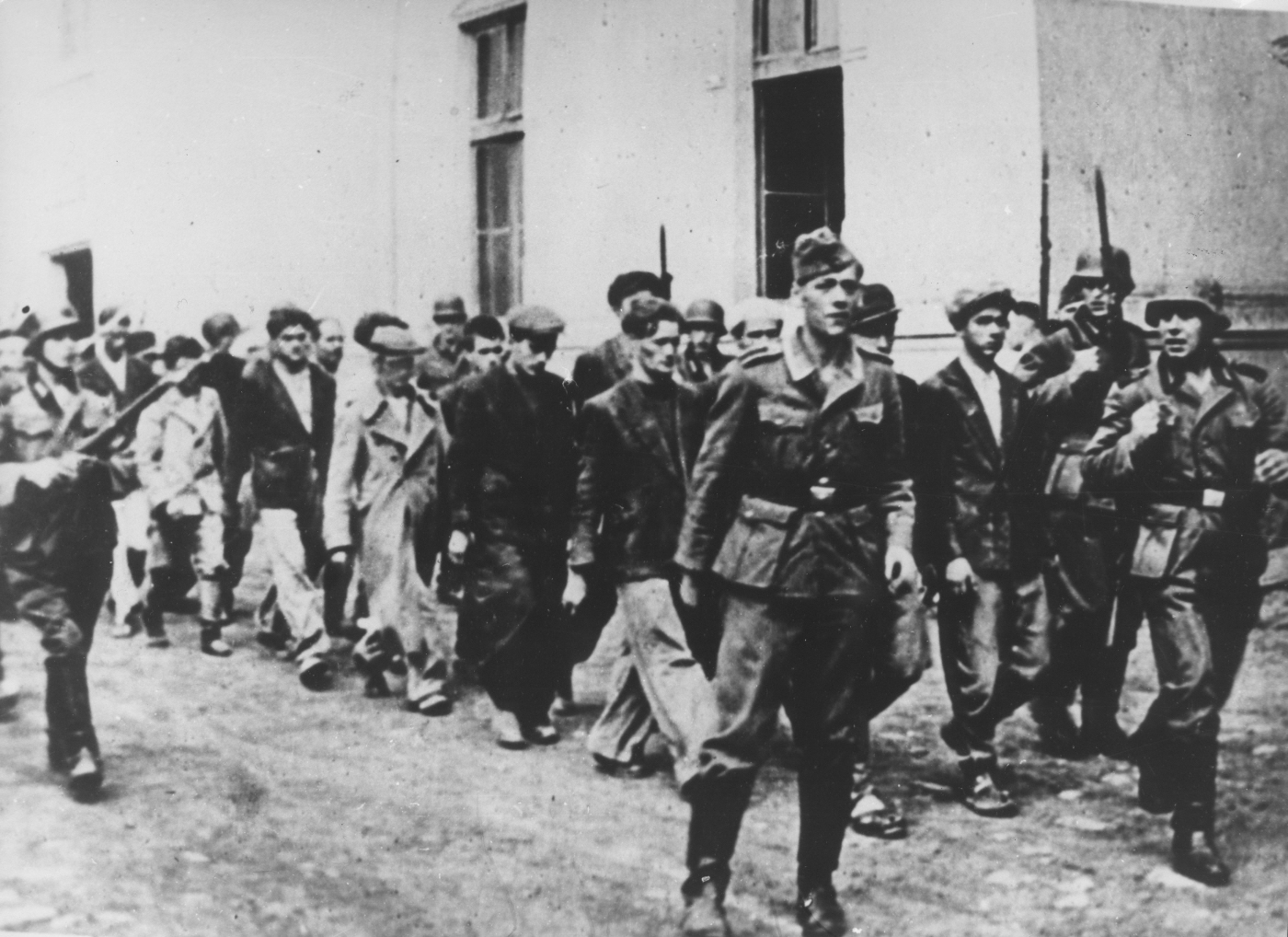 Germans escort people from Kragvjevac and its surrounding area to be executed.